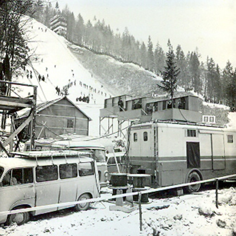 Report car and equipment in Planica.